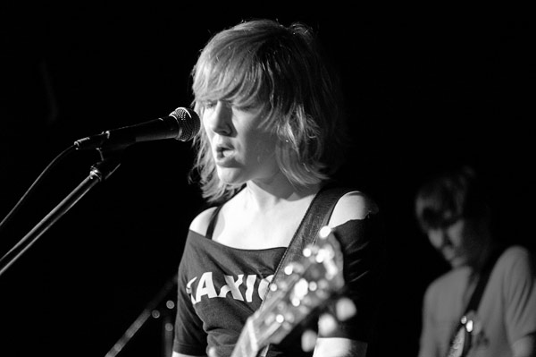 Elizabeth Elmore of The ReputationThe Reputation (Elizabeth Elmore)